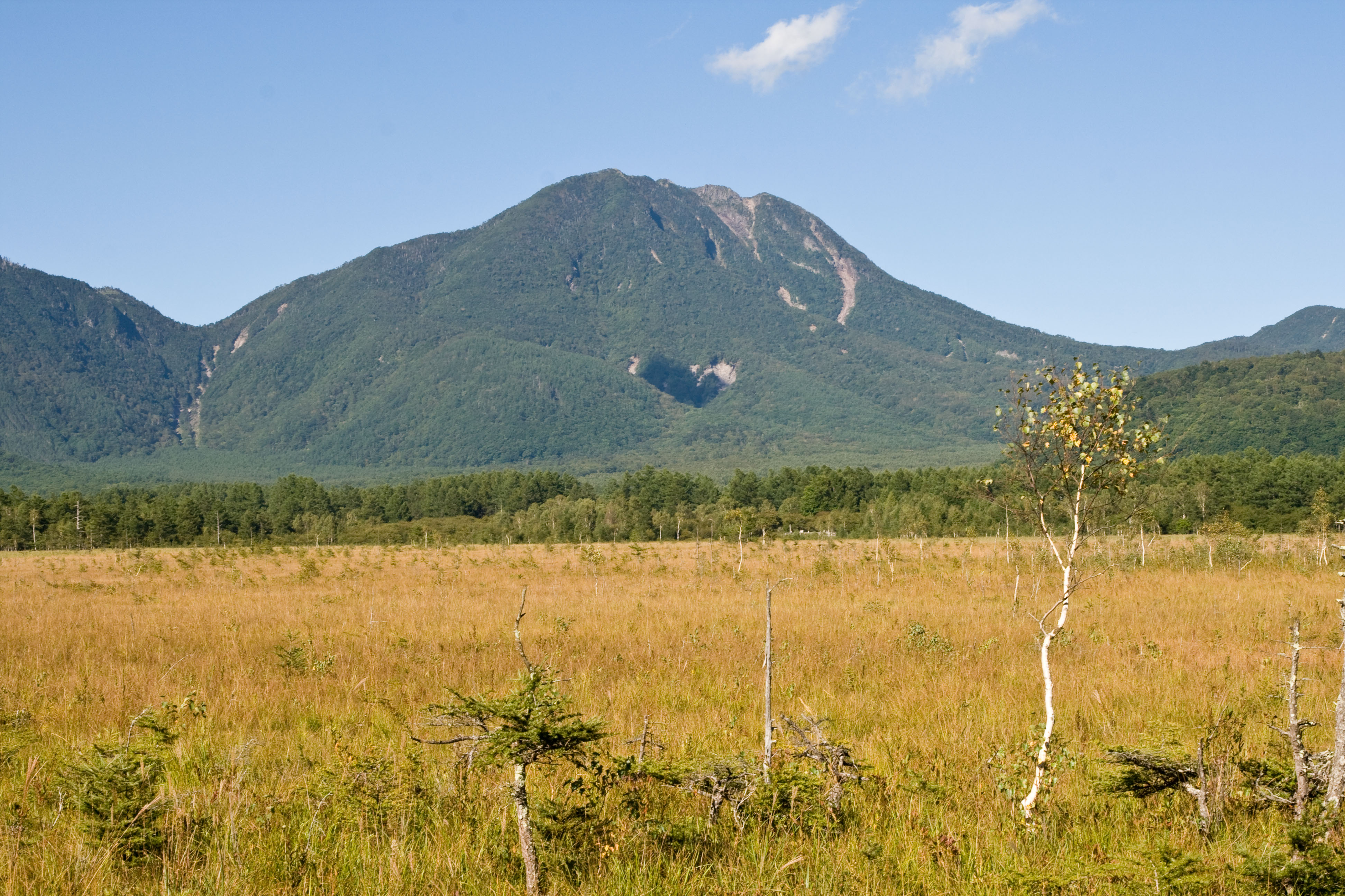 Mt.Taro, Nikko, Tochigi Pref., Japan.